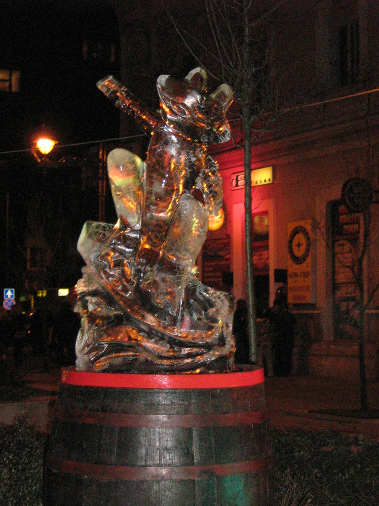 Red Icefrog at Jellyfestival. Miskolc, Hungary, 2008.